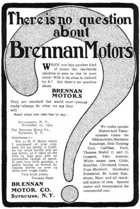 Brennan Motor Co. - Syracuse, New York - 1906